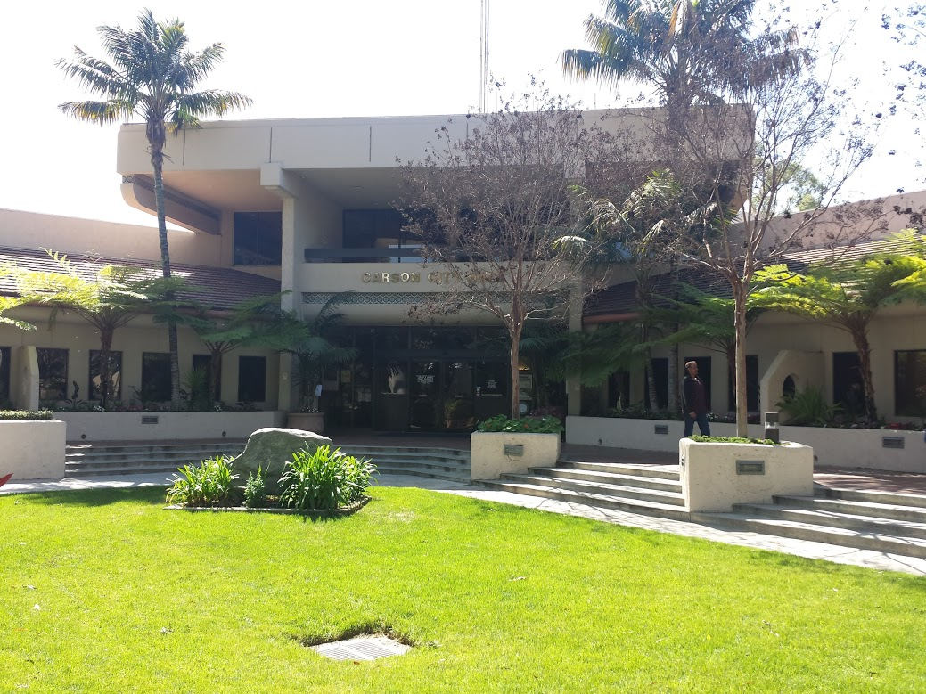 English